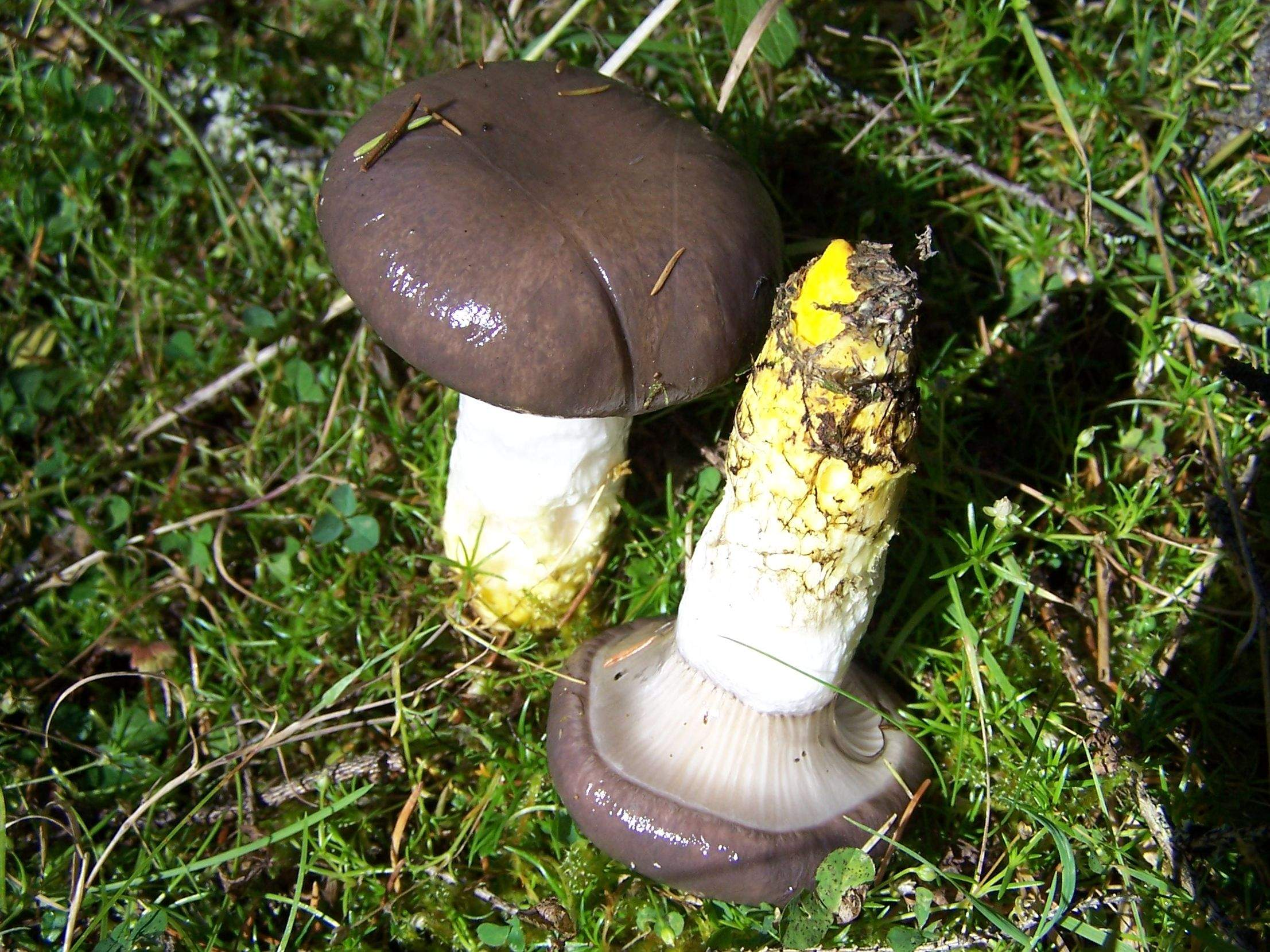 Gomphidius glutinosus (Biała Woda)